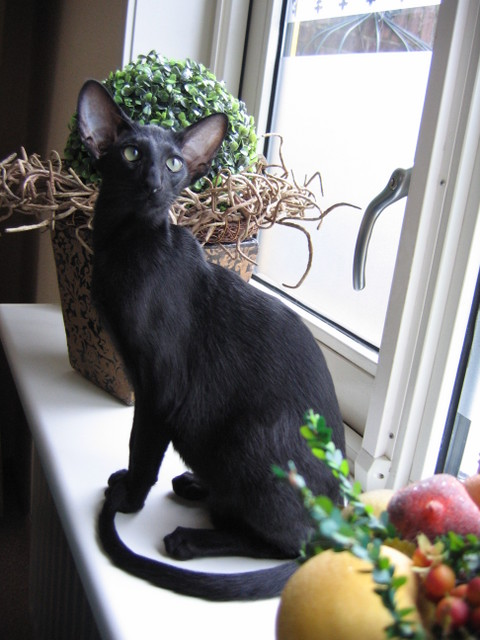 Ebony Solid Oriental Shorthair